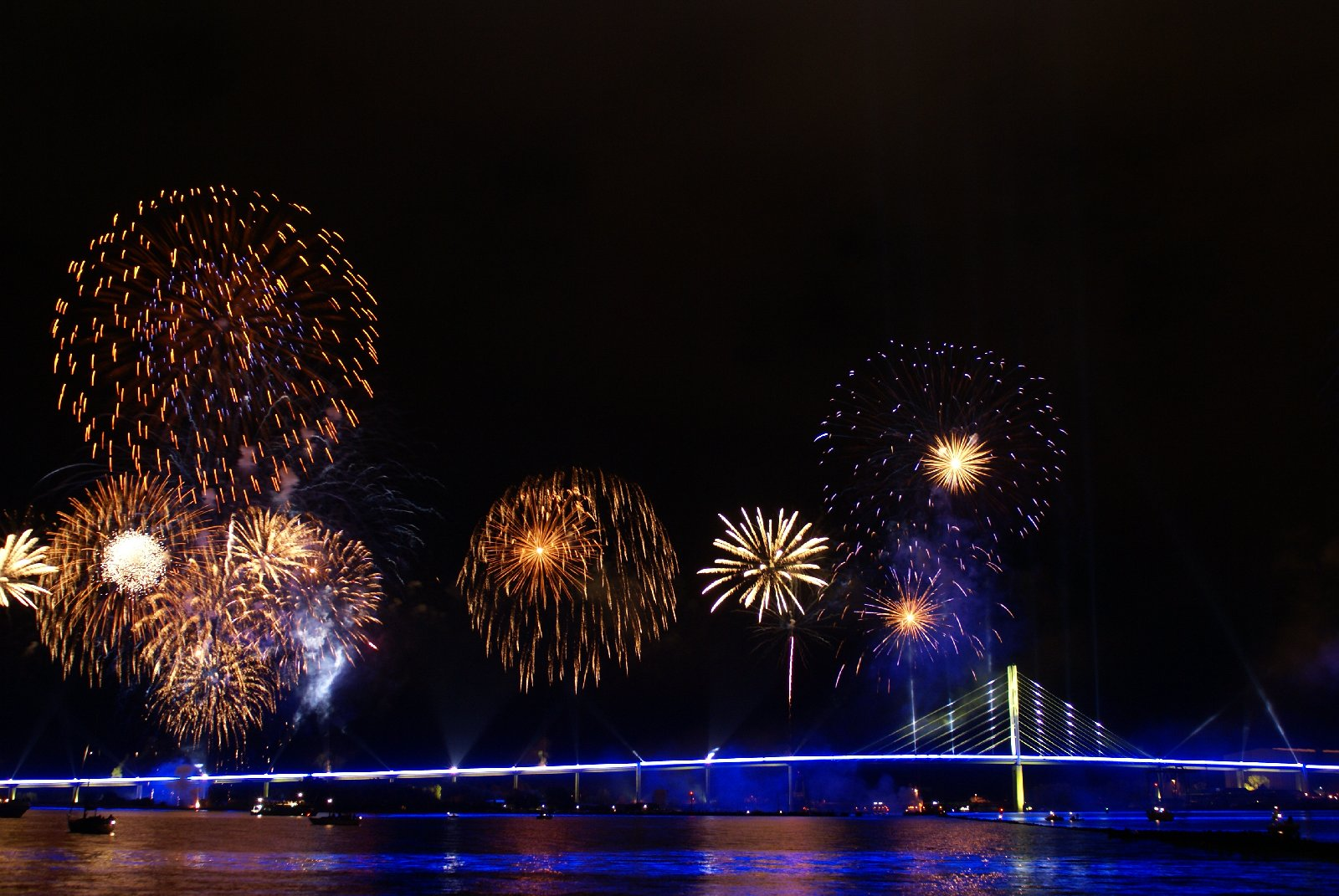 Fireworks opening "Rügendamm"